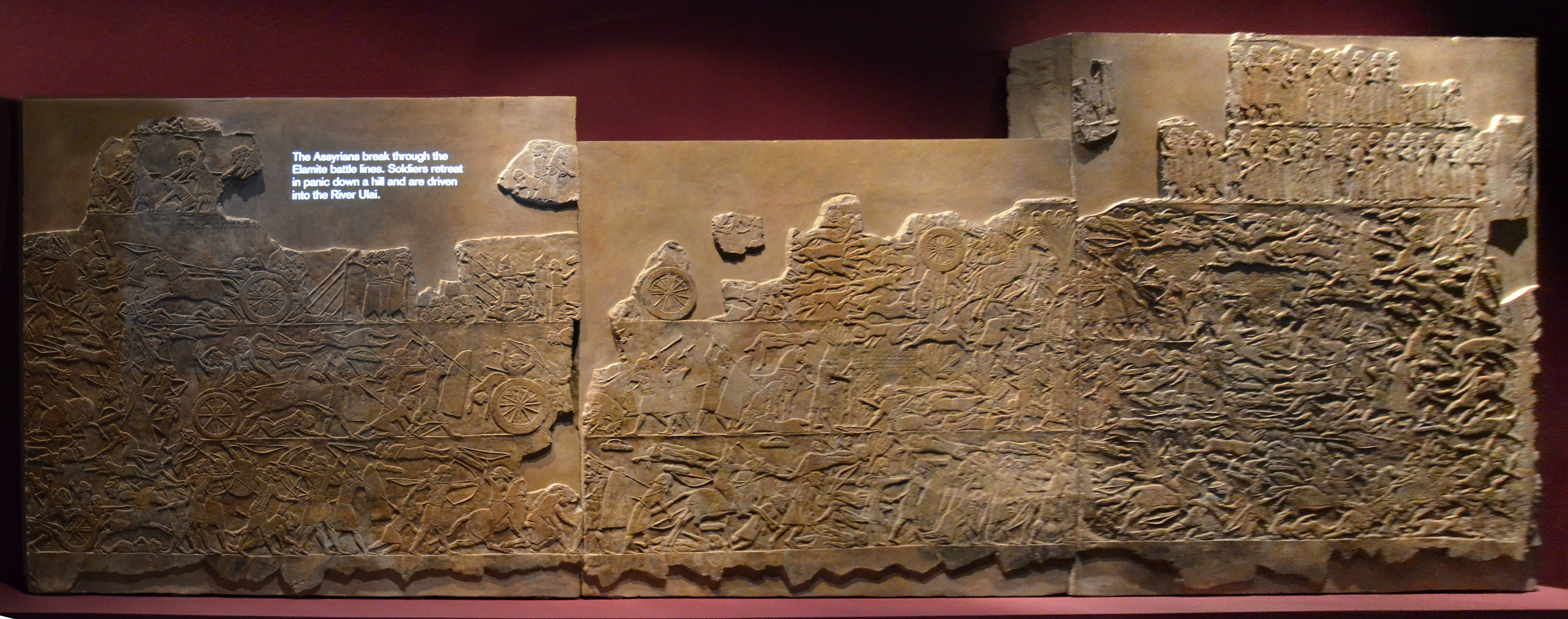 Battle of Ulai, Elam, 653 BCE, British Museum